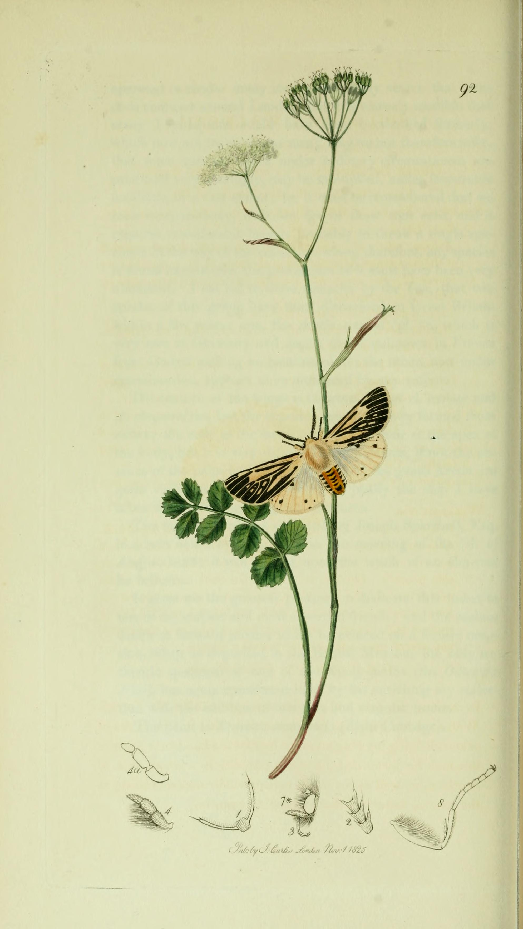 An illustration from British Entomology by John Curtis. Spilosoma walkerii or Spilosoma lubricipeda ab. walkeri (White Ermine,variety).